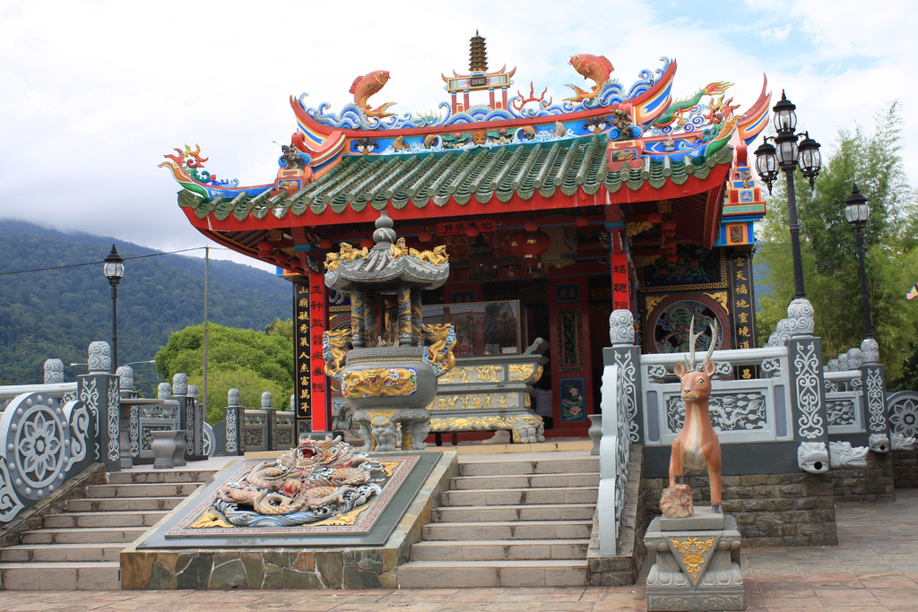 Da Bo Gong Temple, Lundu Town, Sarawak